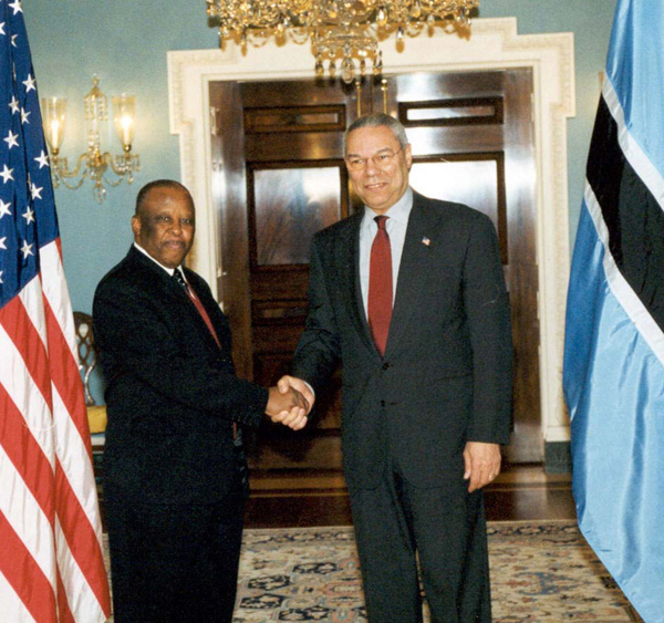 Photograph of President of Botswana Festus Mogae, with US Secretary of State Colin Powell in Washington DC, February 26, 2002.